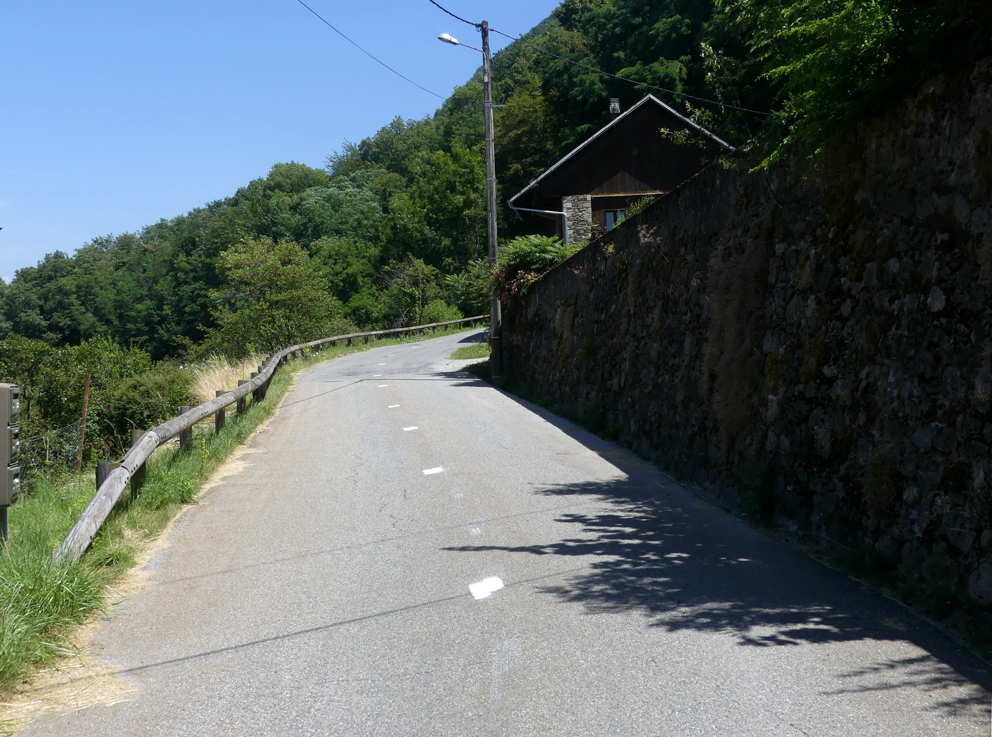 Sight of the beginning of the Route de Montendry road when leaving Chamoux-sur-Gelon, only road to reach Montendry locality 7 kilometers upwards, in Savoie, France.